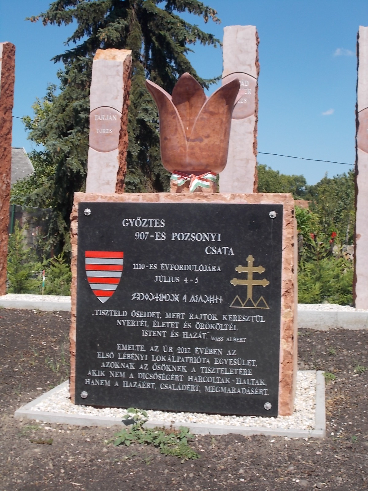 Memorial of the Siege of Bratislava (907), /Tulip statue, columns, 2017 works/. - Iskola lane and Temető Street cnr., Lébény, Győr-Moson-Sopron County, Hungary.